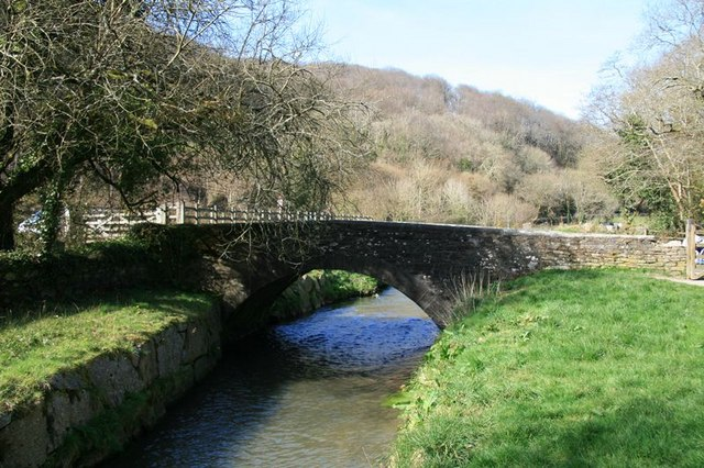 Bridge by King's Wood Small vehicular bridge providing access across the St Austell River from the B3273 (Pentewan Road) to the small visitor car park in King's Wood.